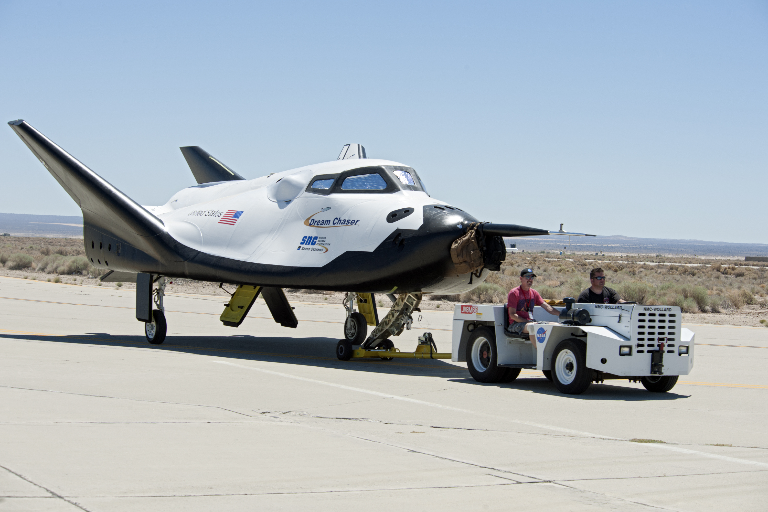 Edwards, Calif. – ED13-0215-072 - Sierra Nevada Corporation SNC Space Systems' team members tow the Dream Chaser flight vehicle along a concrete runway at NASA's Dryden Flight Research Center in California for range and taxi tow tests. The ground testing will validate the performance of the spacecraft's nose skid, brakes, tires and other systems prior to captive-carry and free-flight tests scheduled for later this year. SNC is one of three companies working with NASA's Commercial Crew Program, or CCP, during the agency's Commercial Crew Integrated Capability, or CCiCap, initiative, which is intended to lead to the availability of commercial human spaceflight services for government and commercial customers.